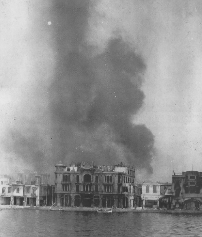 Hotel Splendid in Thessaloniki during the Great Fire in 1917.